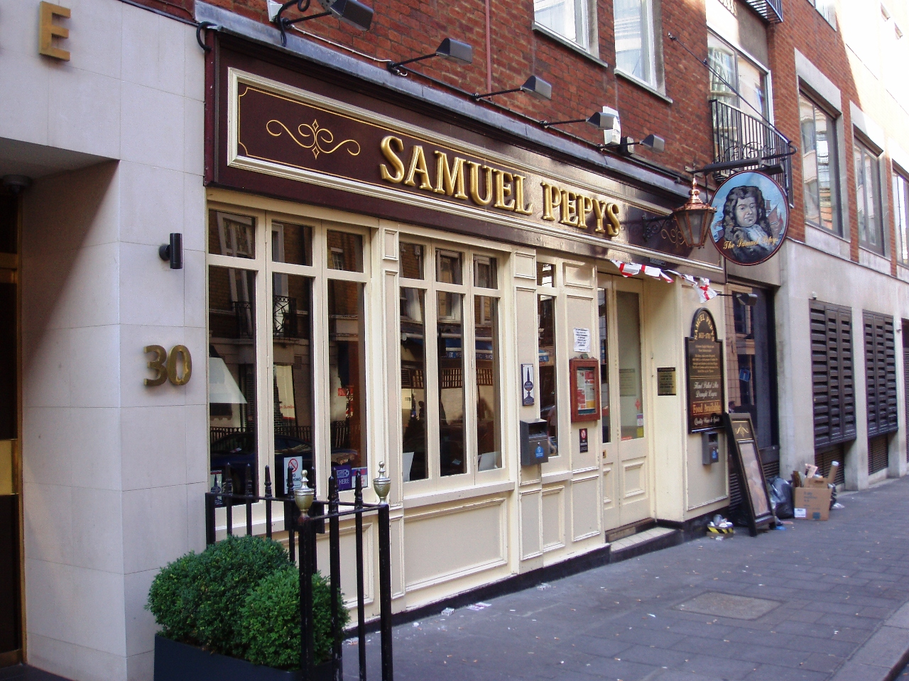 A pub with literary pretensions in Mayfair, but closed the day after this photo was taken. It's since reopened as The Field.